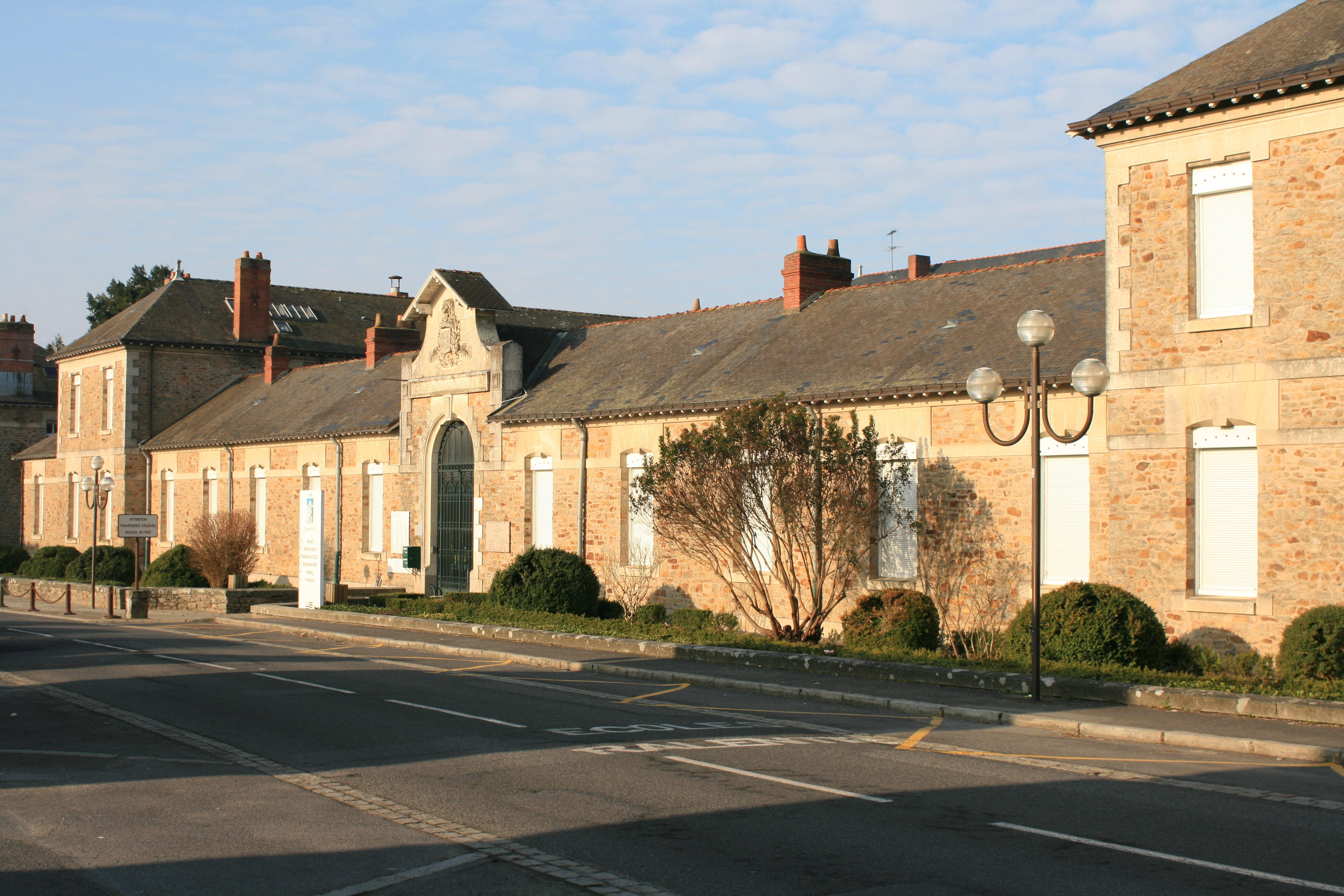 Lycée Jacques Prévert in Savenay, Loire-Atlantique, France. This is a former Normale School (professor's school) and was used as hospital by the US expeditionnary forces in 1917-1918.